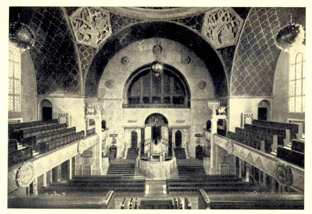 Interior of the synagogue in Augsburg, Halderstraße